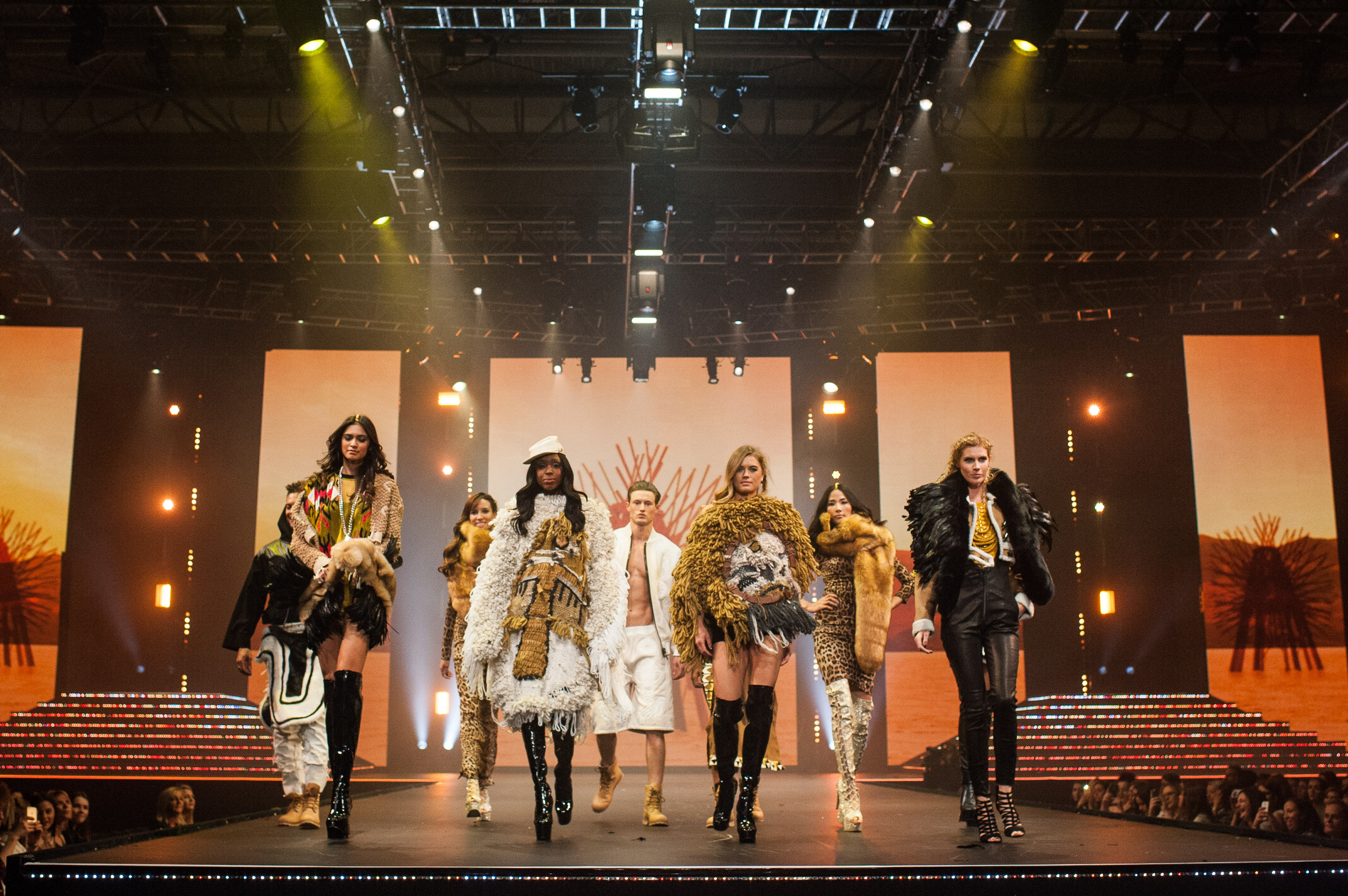 The stunning models strutting their stuff in the Fashion Theatre